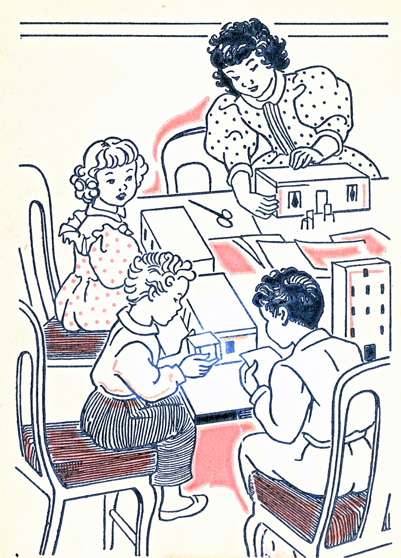 first illustration within the actual story Let me read to you, if I may: "The Bobbsey twins were very busy that morning. They were all seated around the dining-room table, making houses and furnishing them. The houses were being made out of pasteboard shoe boxes, and had square holes cut in them for doors, and other long holes for windows, and had pasteboard chairs and tables, and bits of dress goods for carpets and rugs, and bits of tissue paper stuck up to the windows for lace curtains. Three of the houses were long and low, but Bert had placed his box on one end and divided it into five stories, and Flossie said it looked exactly like a 'department' house in New York. There were four of the twins. Now that sounds funny, doesn't it? But, you see, there were two sets. Bert and Nan, age eight, and Freddie and Flossie, age four."